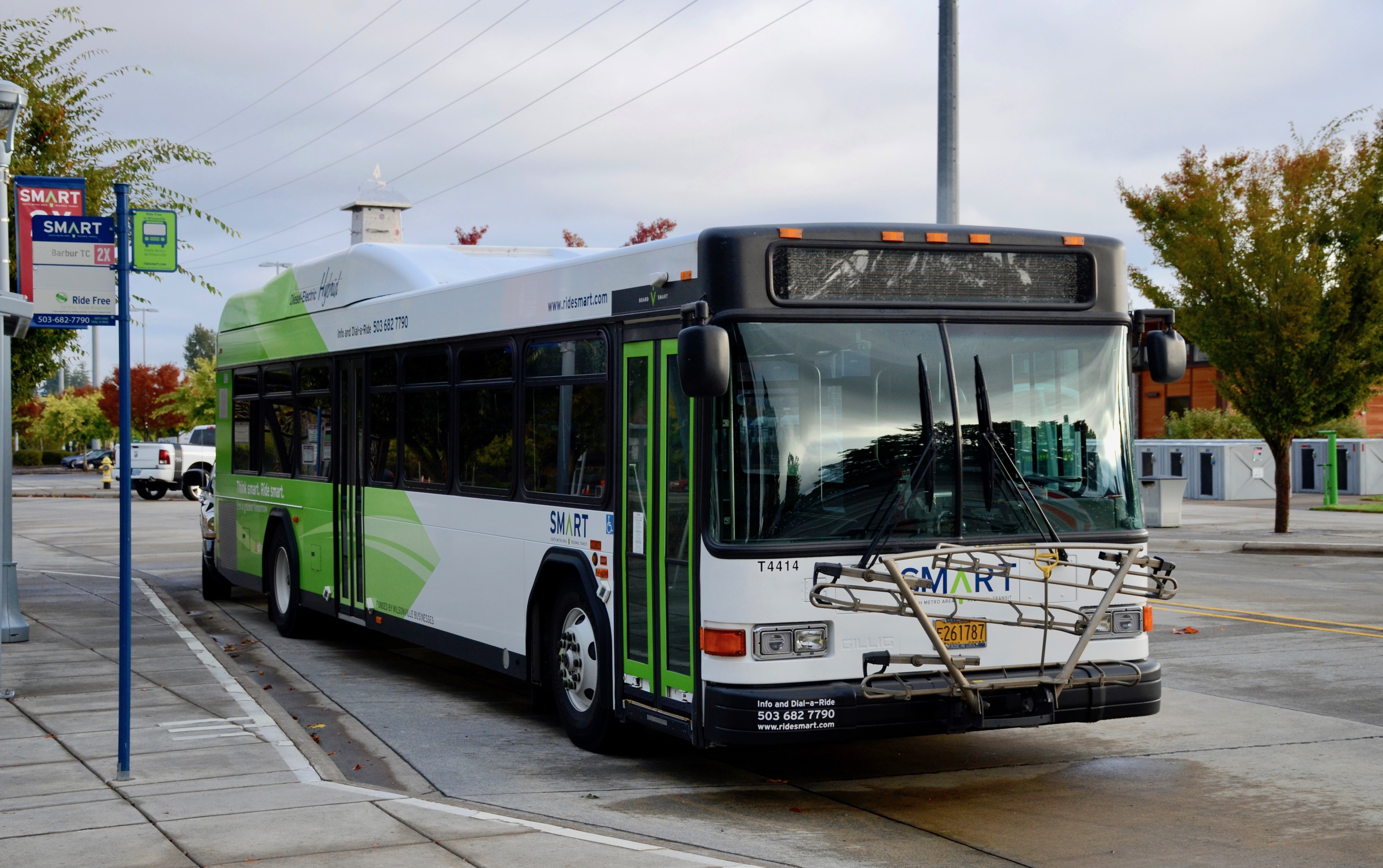 Bus T4414 of South Metro Area Regional Transit (SMART), the transit system of Wilsonville, Oregon, is a 40-foot Gillig Low Floor hybrid bus that was built in 2014. It is pictured at the Wilsonville Station transit center in 2018.